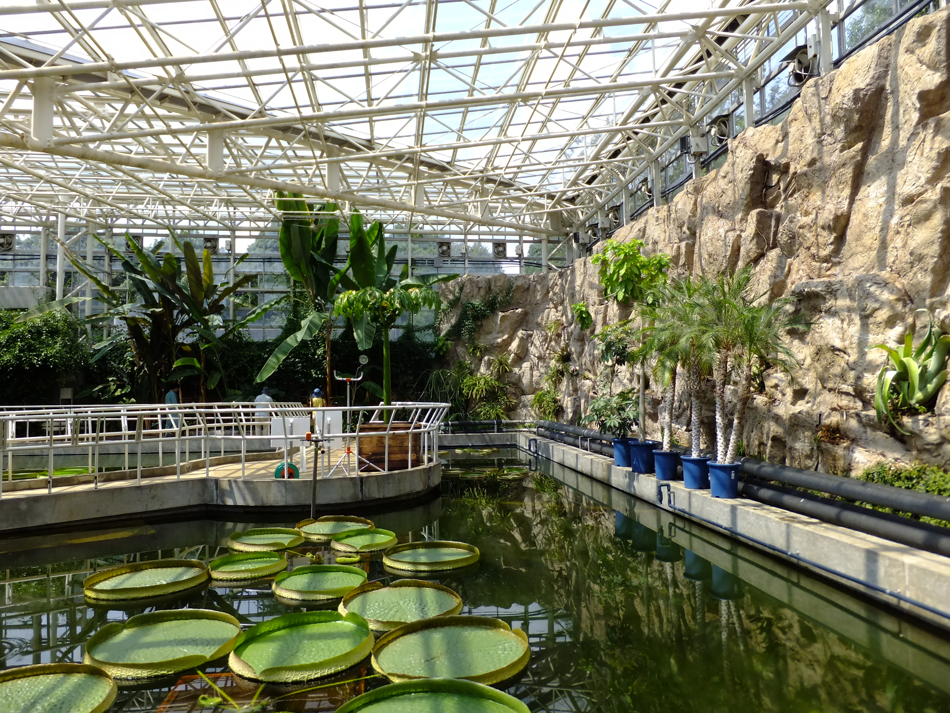 Inside of Greenhouse, Jindai Botanical Garden; Chofu City, Tokyo.